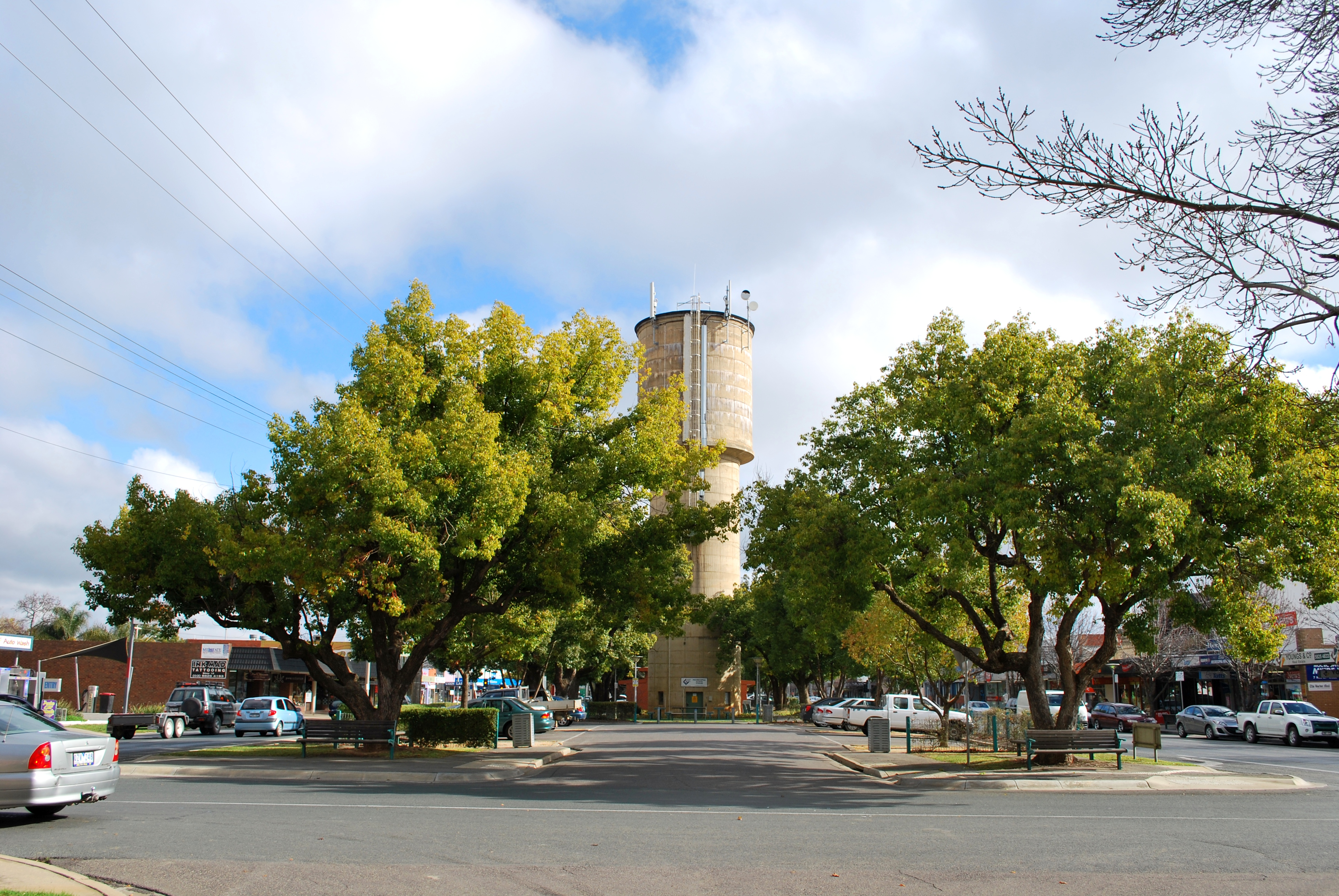 McLennan St, the main street of Mooroopna, Victoria